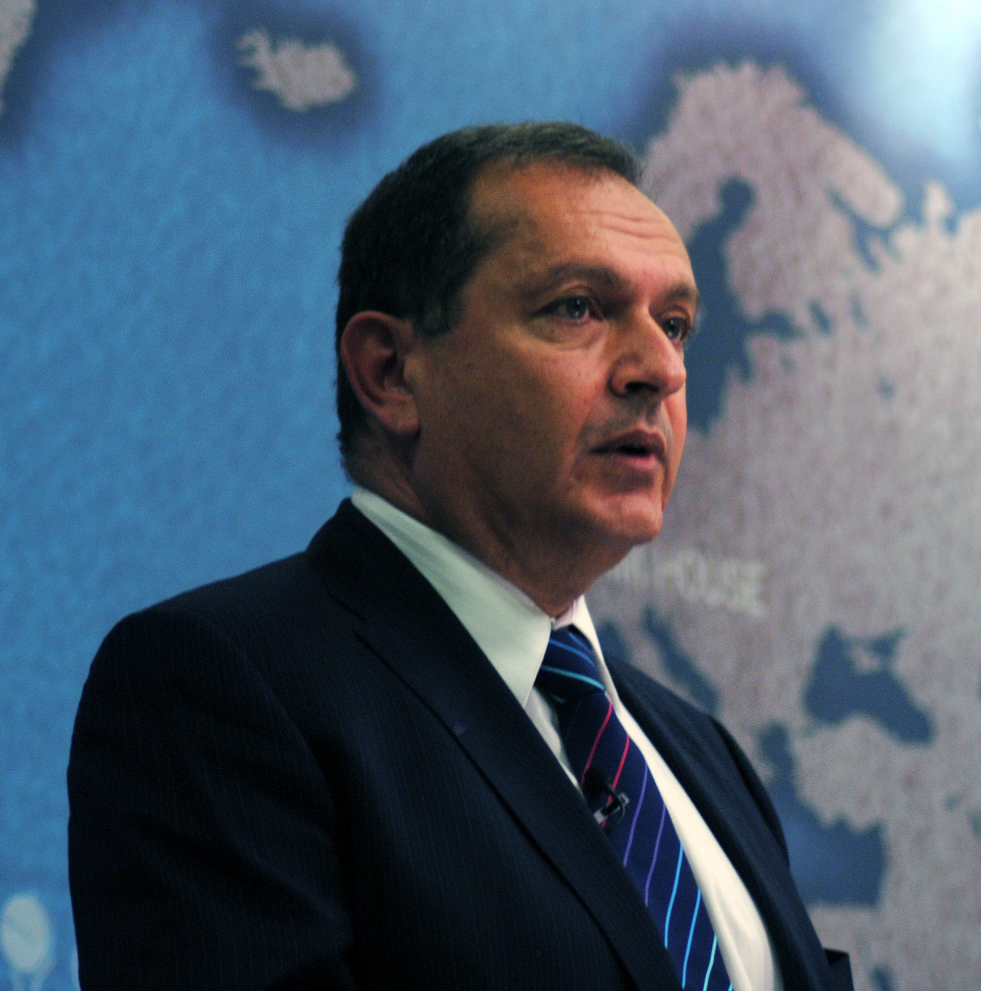 Iraq Ten Years On, 19 March 2013 cht.hm/YoERfI